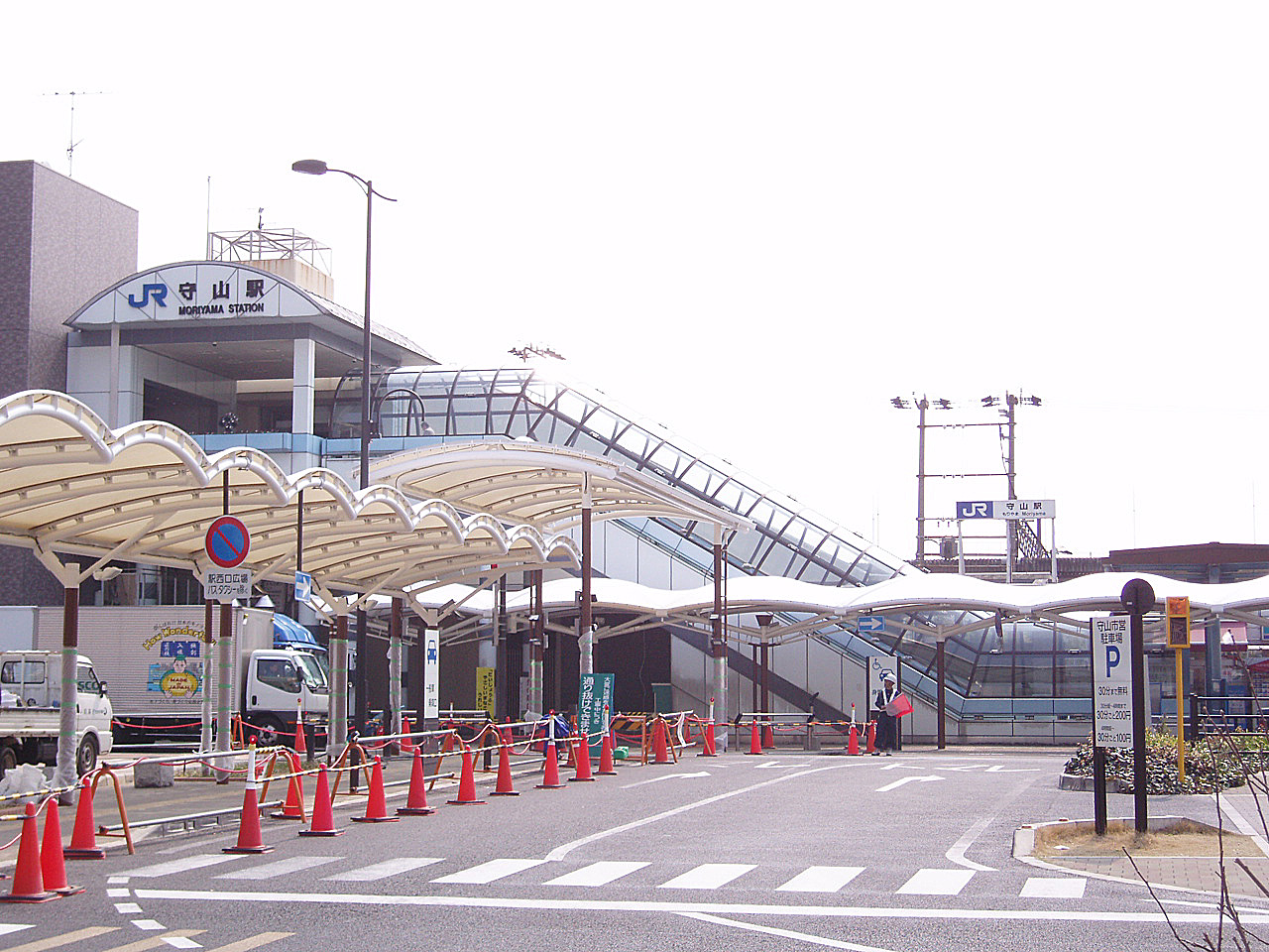 West Japan Railway Tōkaidō Main Line（Biwako Line） Moriyama Station Building（North Gate） 西日本旅客鉄道 東海道本線（琵琶湖線） 守山駅 駅建物（北出口）